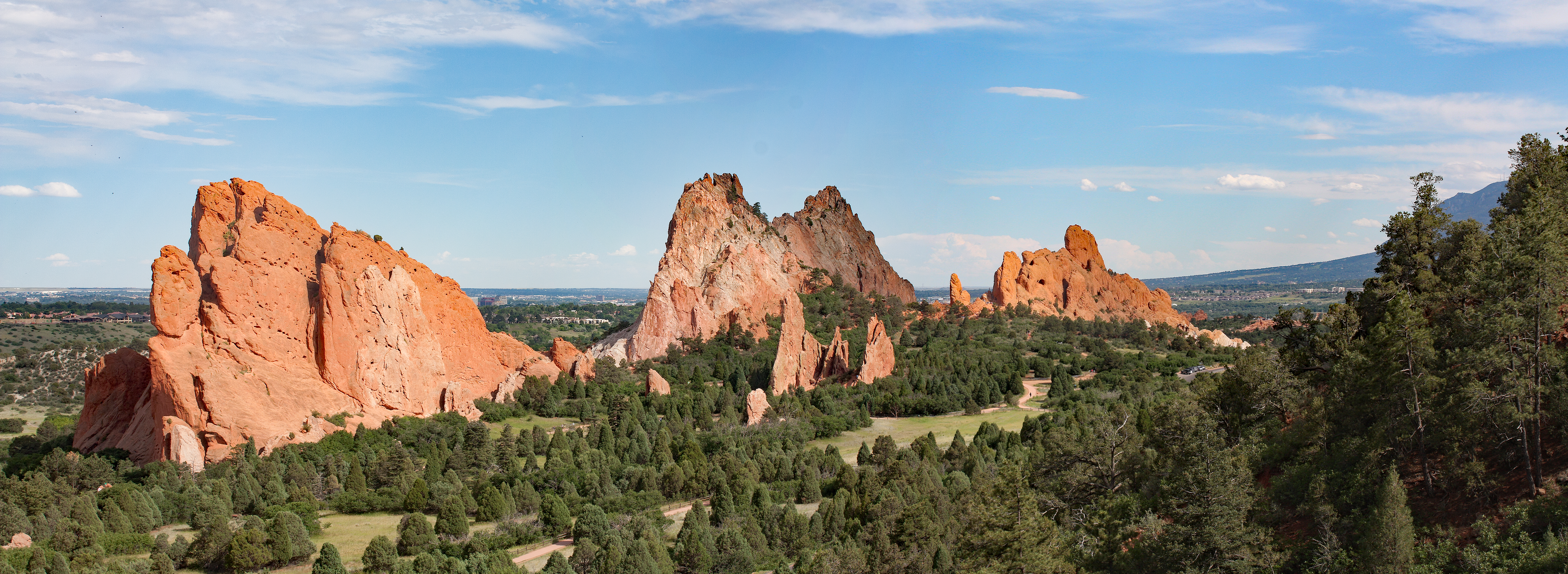 Partial panorama of the Garden of the Gods, Colorado Springs, Colorado, with Cheyenne Mountain on the right..